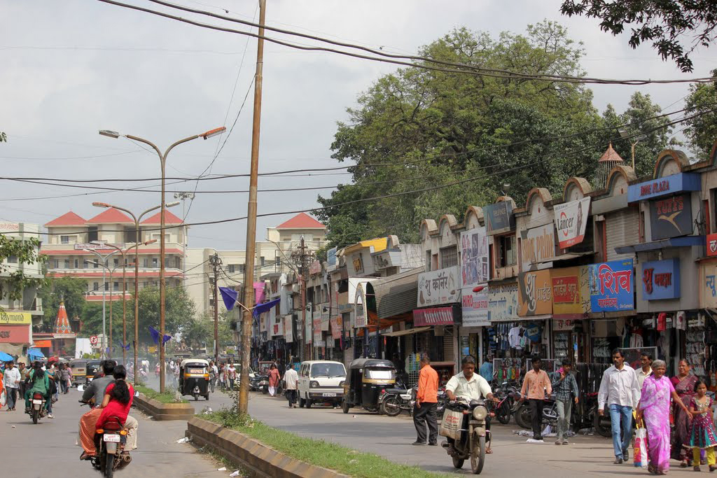 This photo taken in Shalimar-CBS road.